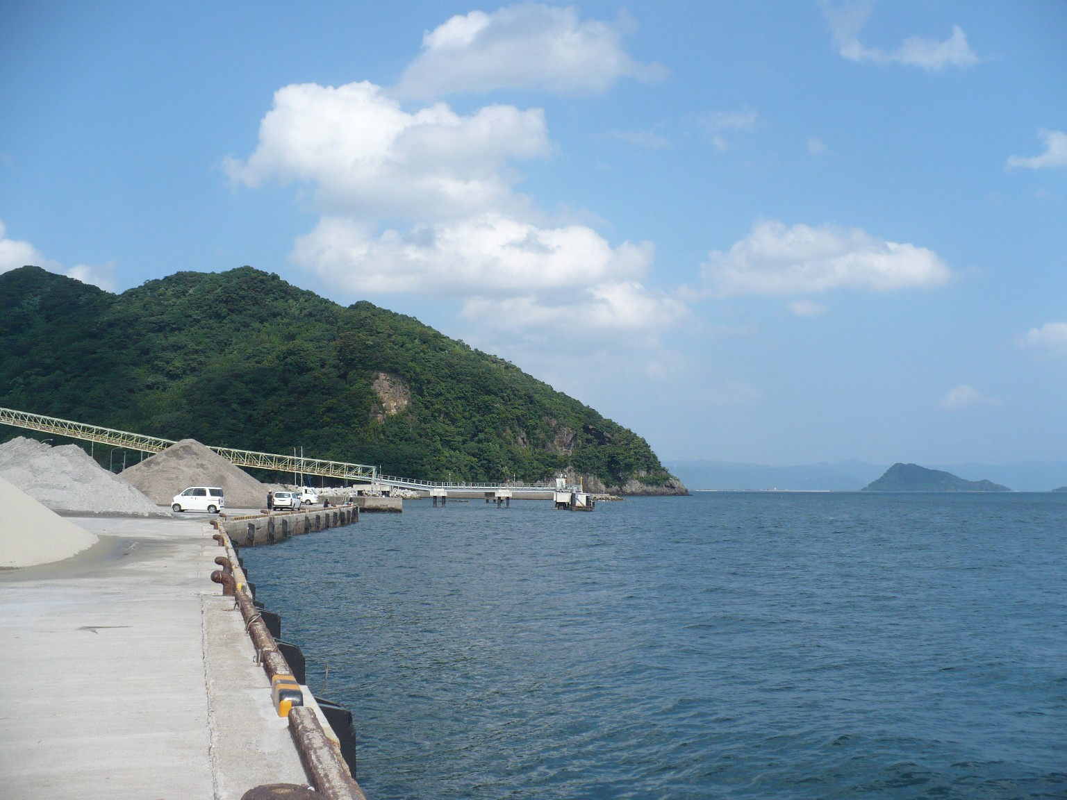 Pier at Kajiki port, Aira, Kagoshima, Japan.